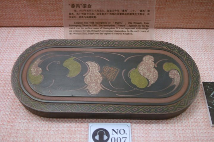 A Chinese lacquer box incised with "Panyu" in seal script, supposedly from the Qin Dynasty.